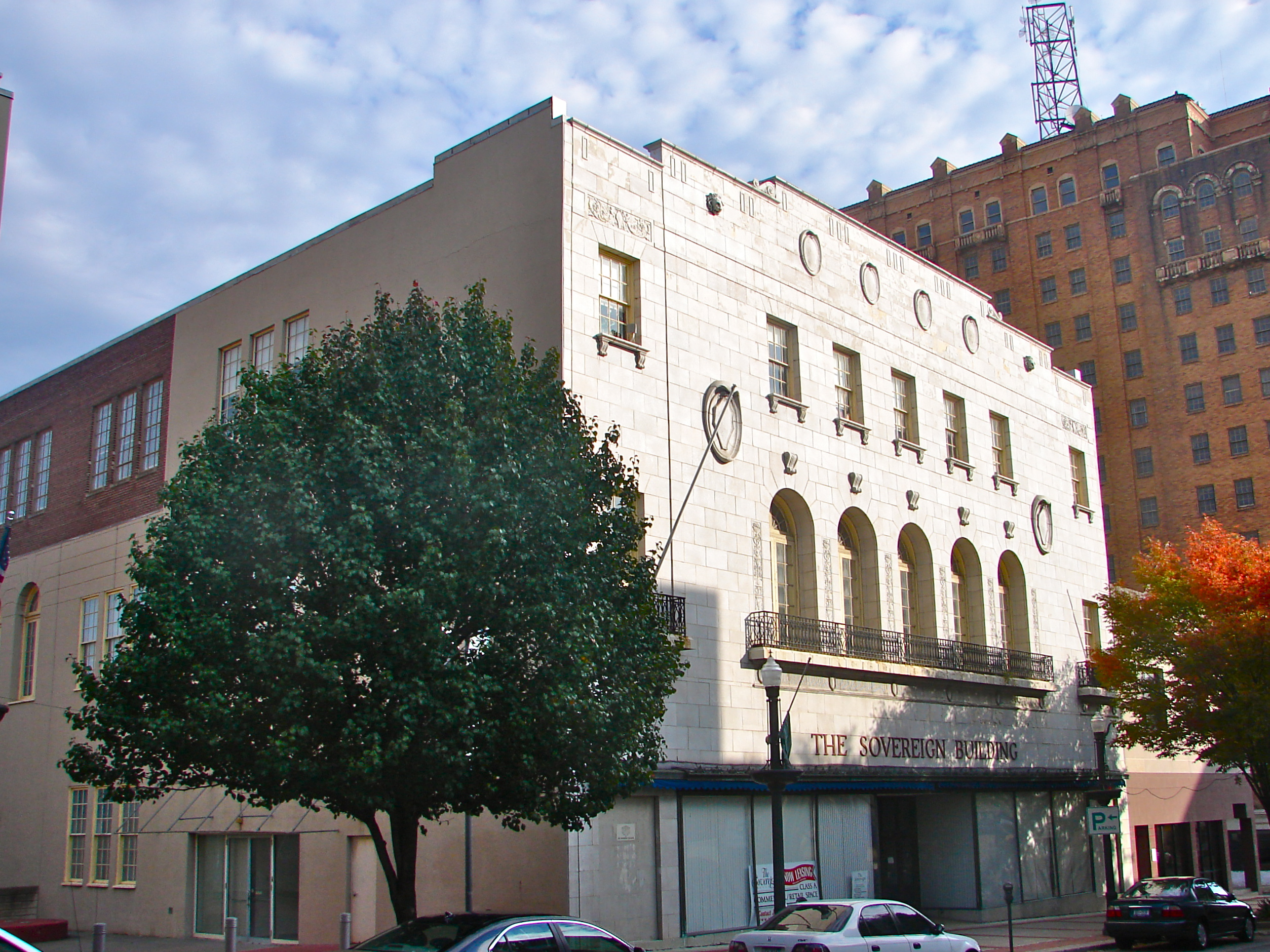 Zollinger-Harned Company Building on the NRHP since December 17, 1979. At 605–613 Hamilton Mall (now displayed as 609) and 14016 (?) North 6th Street, Allentown, Pennsylvania in Lehigh County